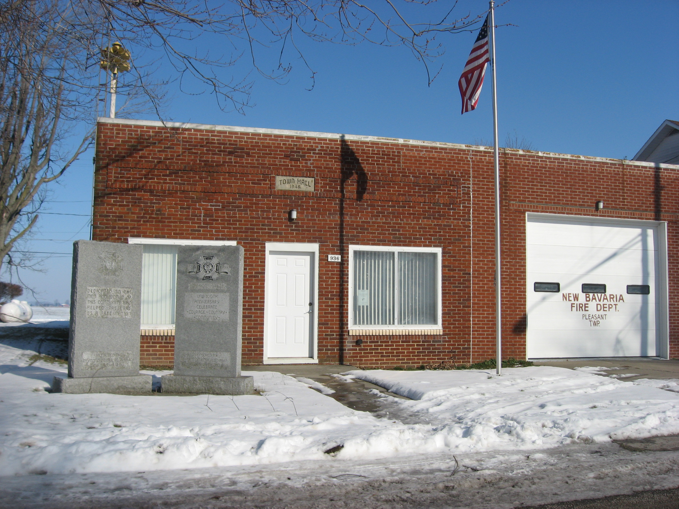 Front of the village hall and fire department in New Bavaria, Ohio, United States, located at 936 Walnut Street and built in 1946.